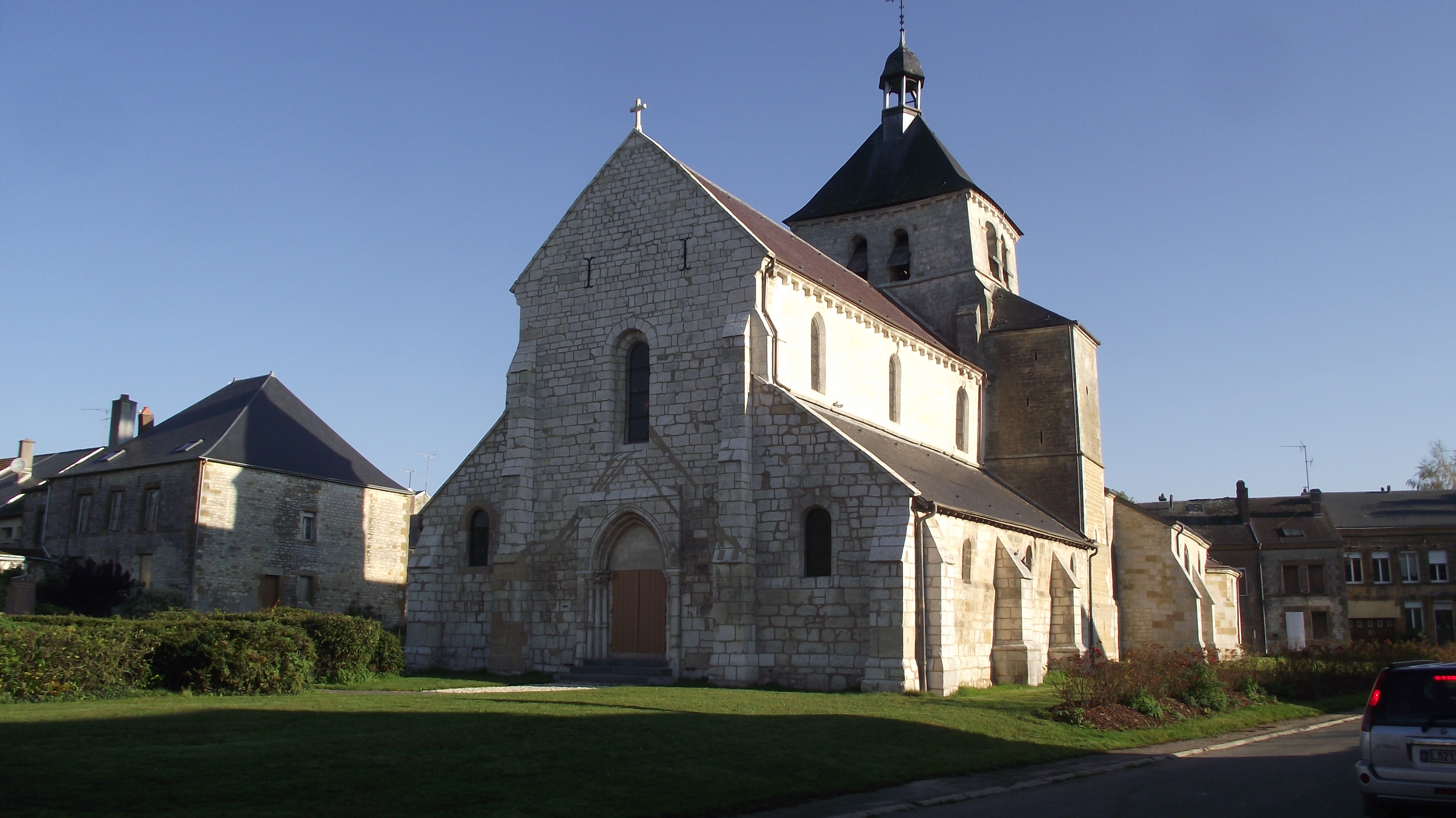 Romanesque church in Vendresse, France